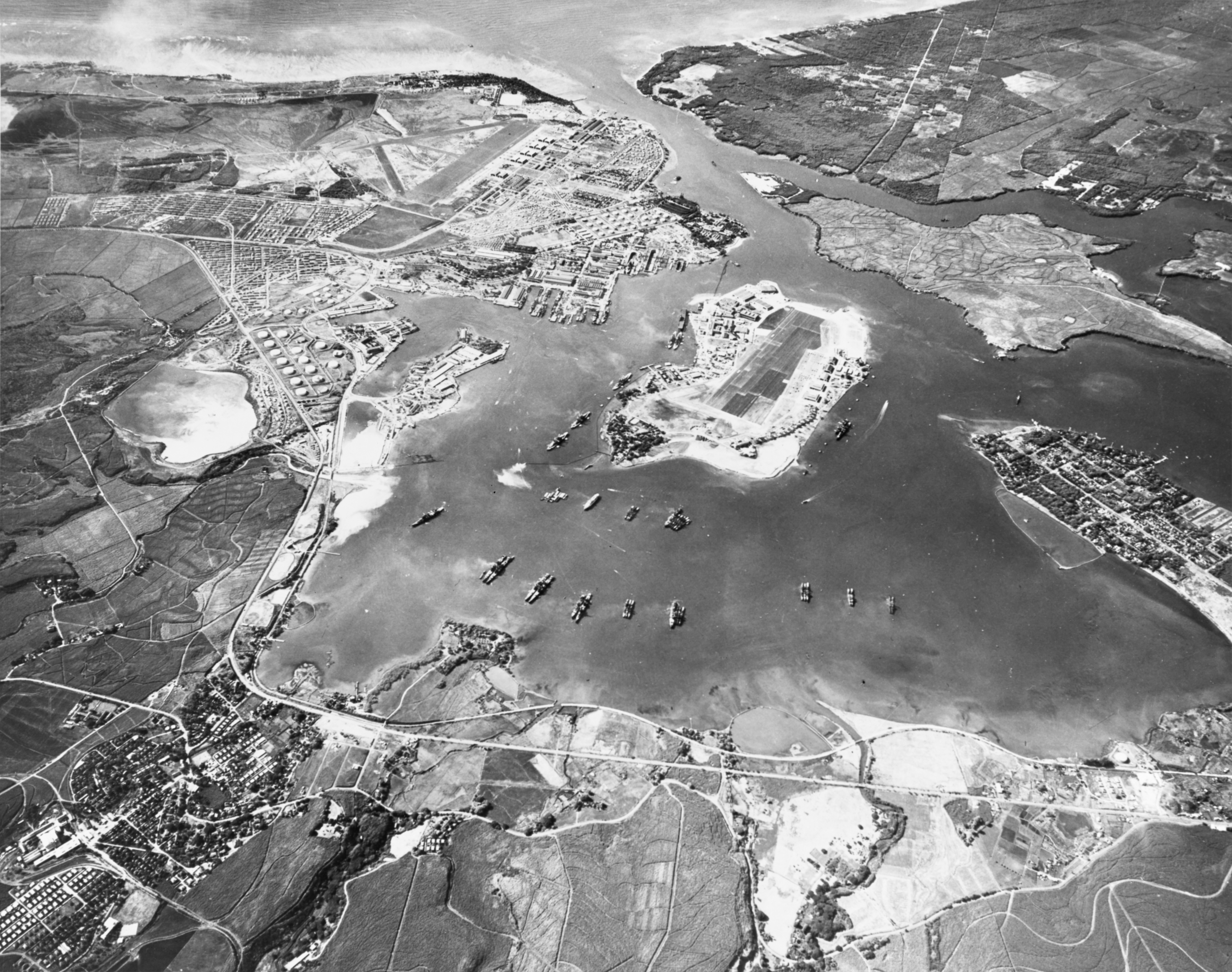 Aerial view of the U.S. Naval Operating Base, Pearl Harbor, Oahu, Hawaii (USA), looking southwest on 30 October 1941. Ford Island Naval Air Station is in the center, with the Pearl Harbor Navy Yard just beyond it, across the channel. The airfield in the upper left-center is the U.S. Army's Hickam Field.